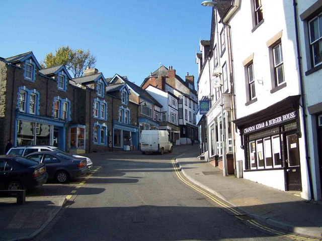 High Street, Knighton